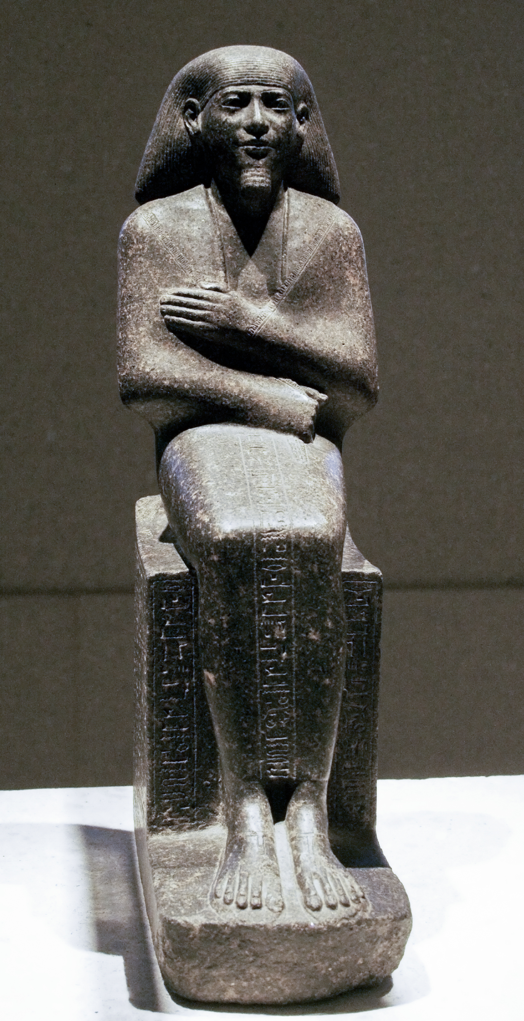 Seated figure of Montemhat, governor of the district of Thebes